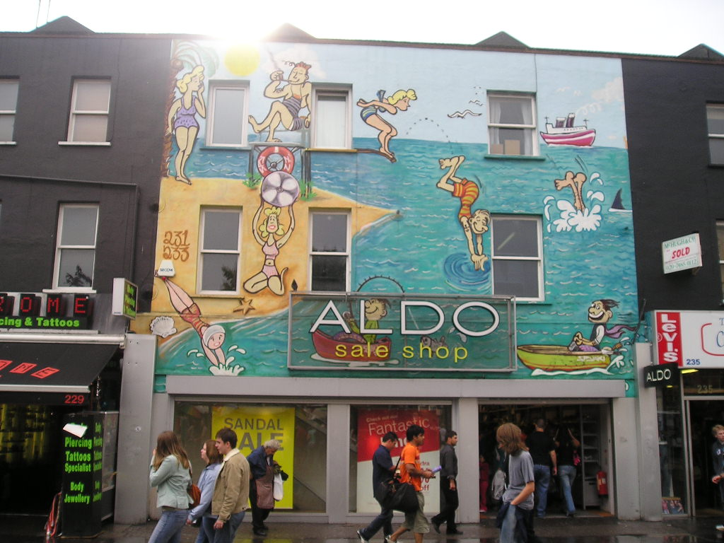 Camden Town